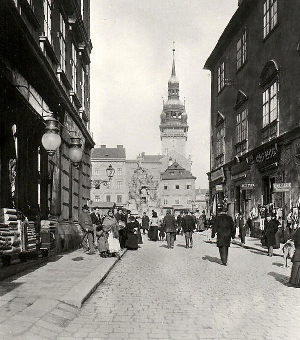 View from Kapucínské náměstí to Zelný trh, Brno, Czech Republic